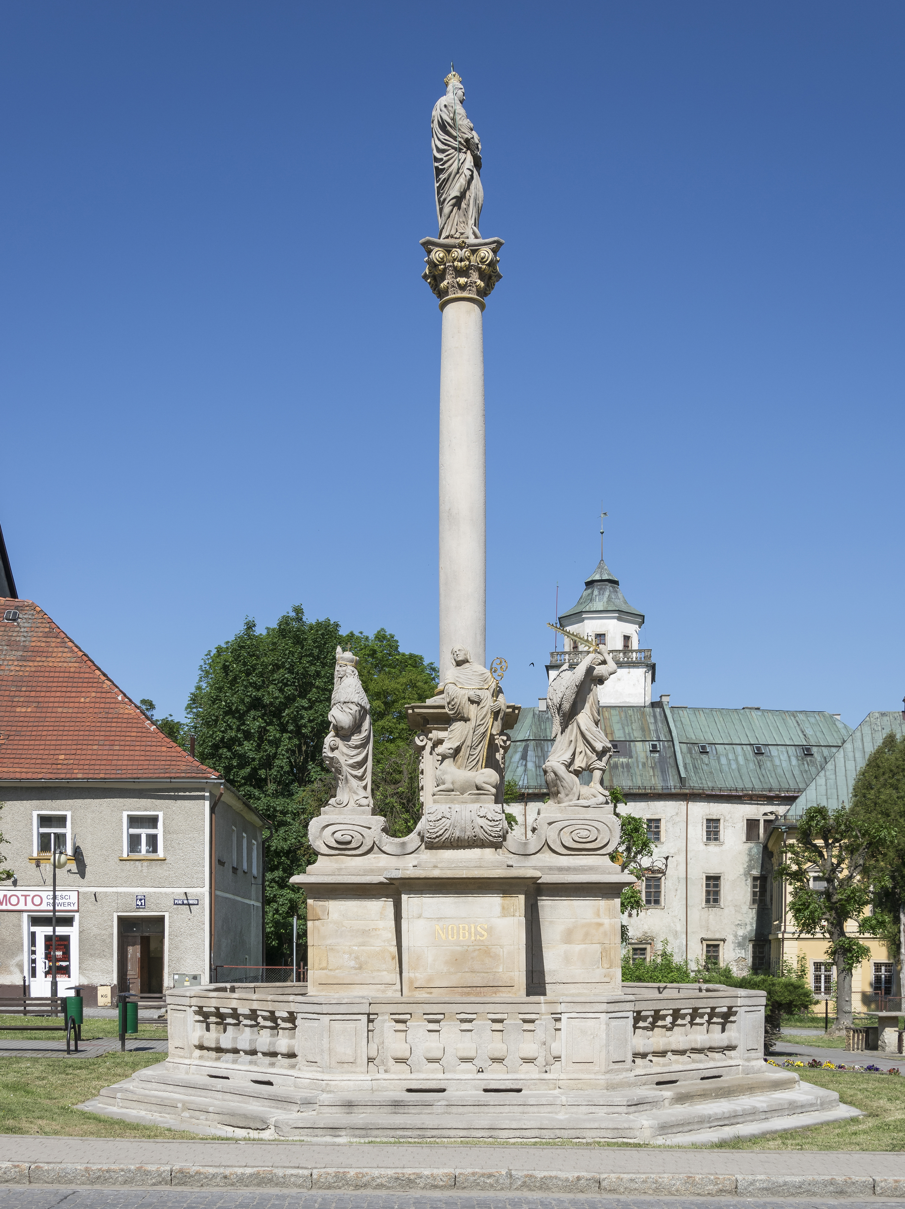 Marian column in Międzylesie